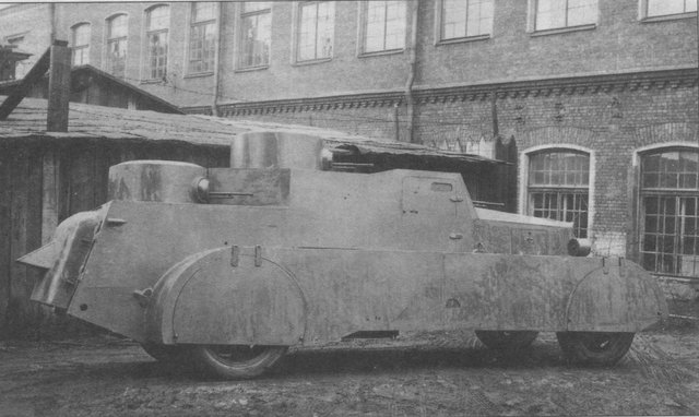 Soviet experimental armored car BAD-1 during trials.